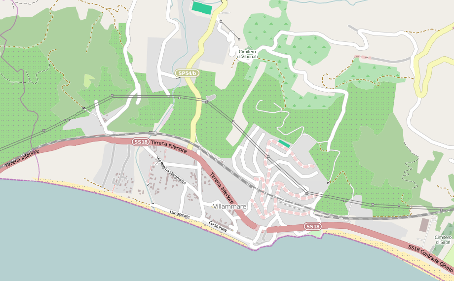 This map may be incomplete, and may contain errors. Don't rely solely on it for navigation.